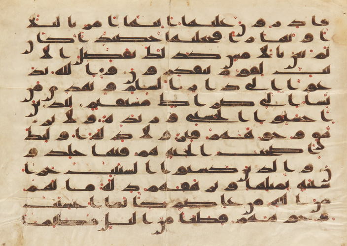 Page from a Koran, Sura 10, verses 24-27 Ink, opaque watercolor on parchment H: 28.0 W: 38.3 cm Egypt